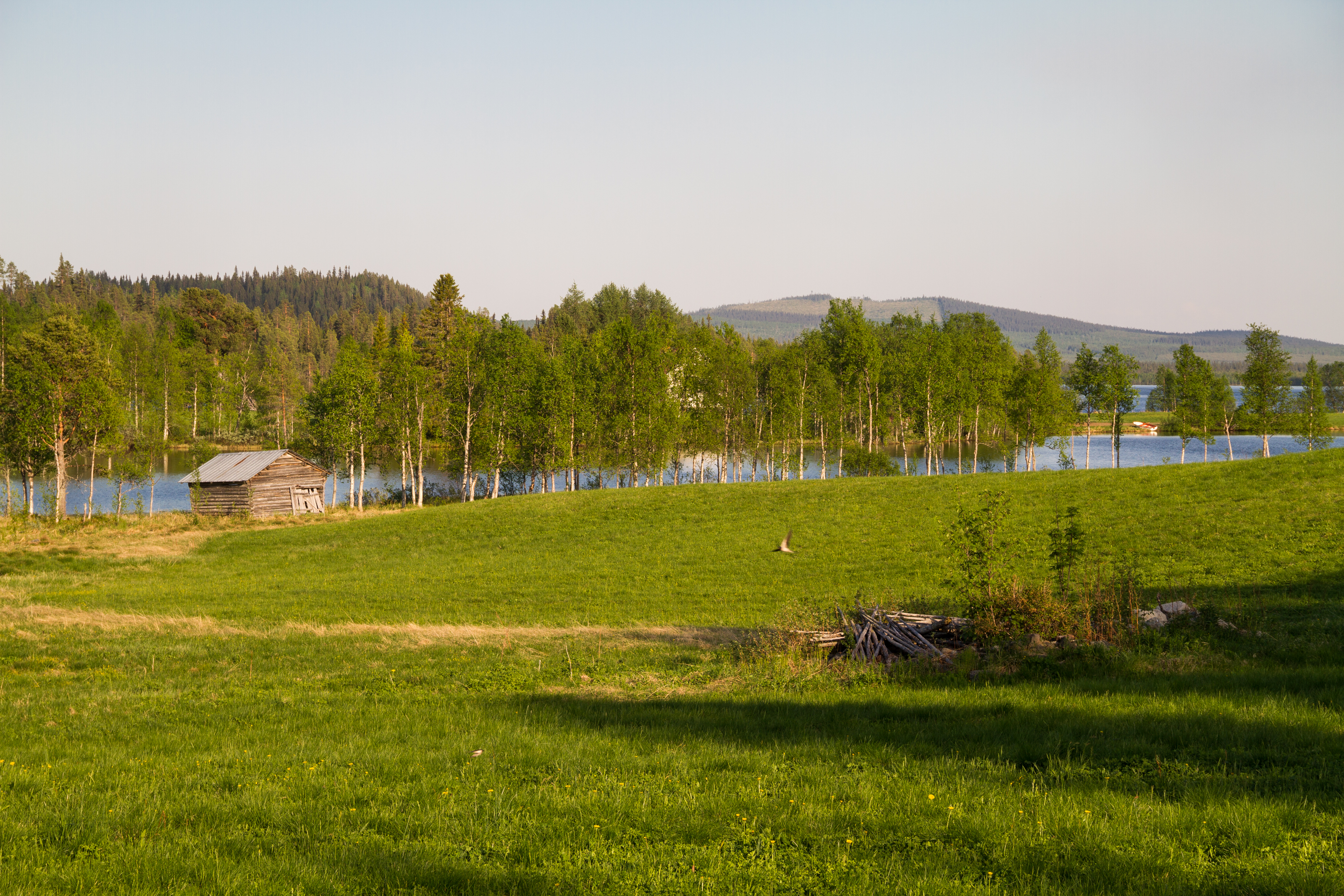 View from Skarvsjöby in Storuman municipality, Västerbotten county, Sweden.